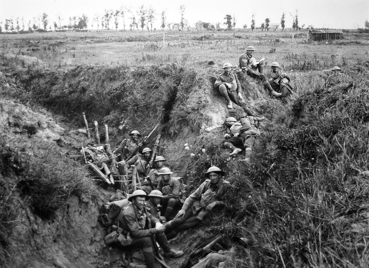 6th Battalion resting in a trench.